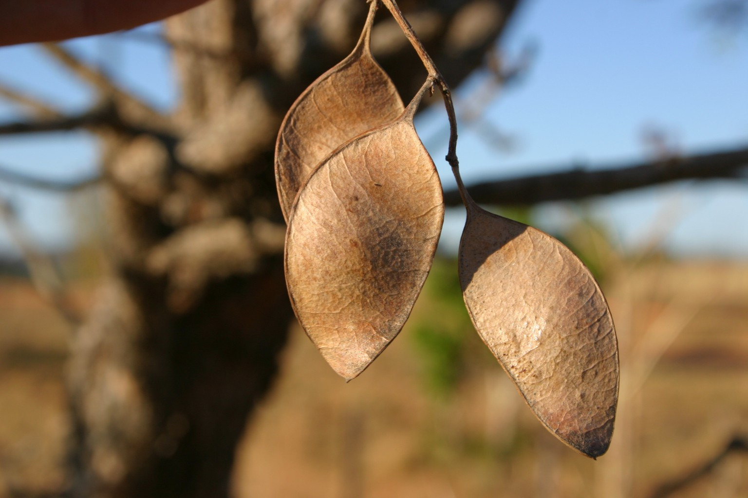 Seed pods of a Wild Syringa in South Africa